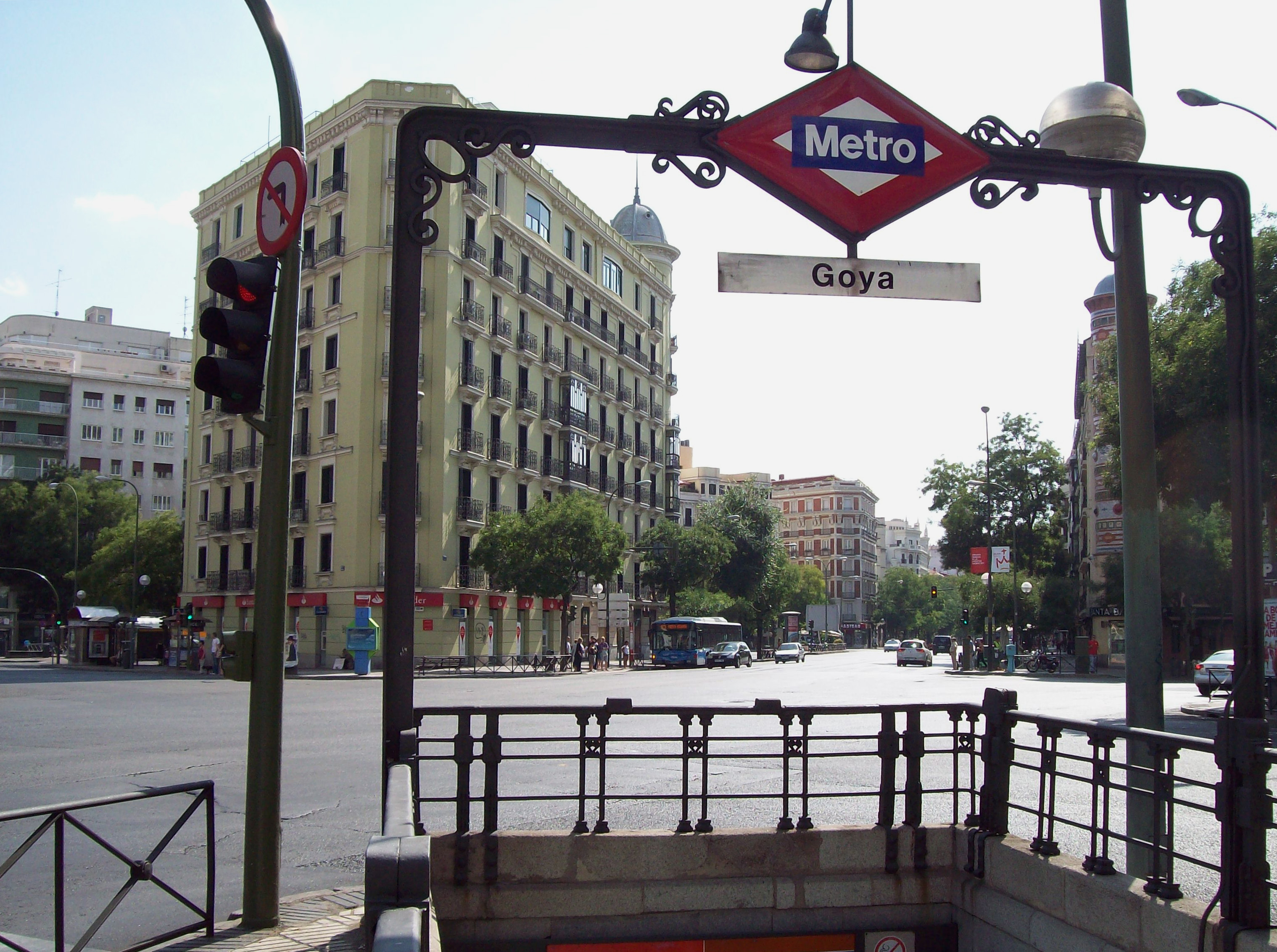 Entrance of Goya metro station in Madrid (Spain).